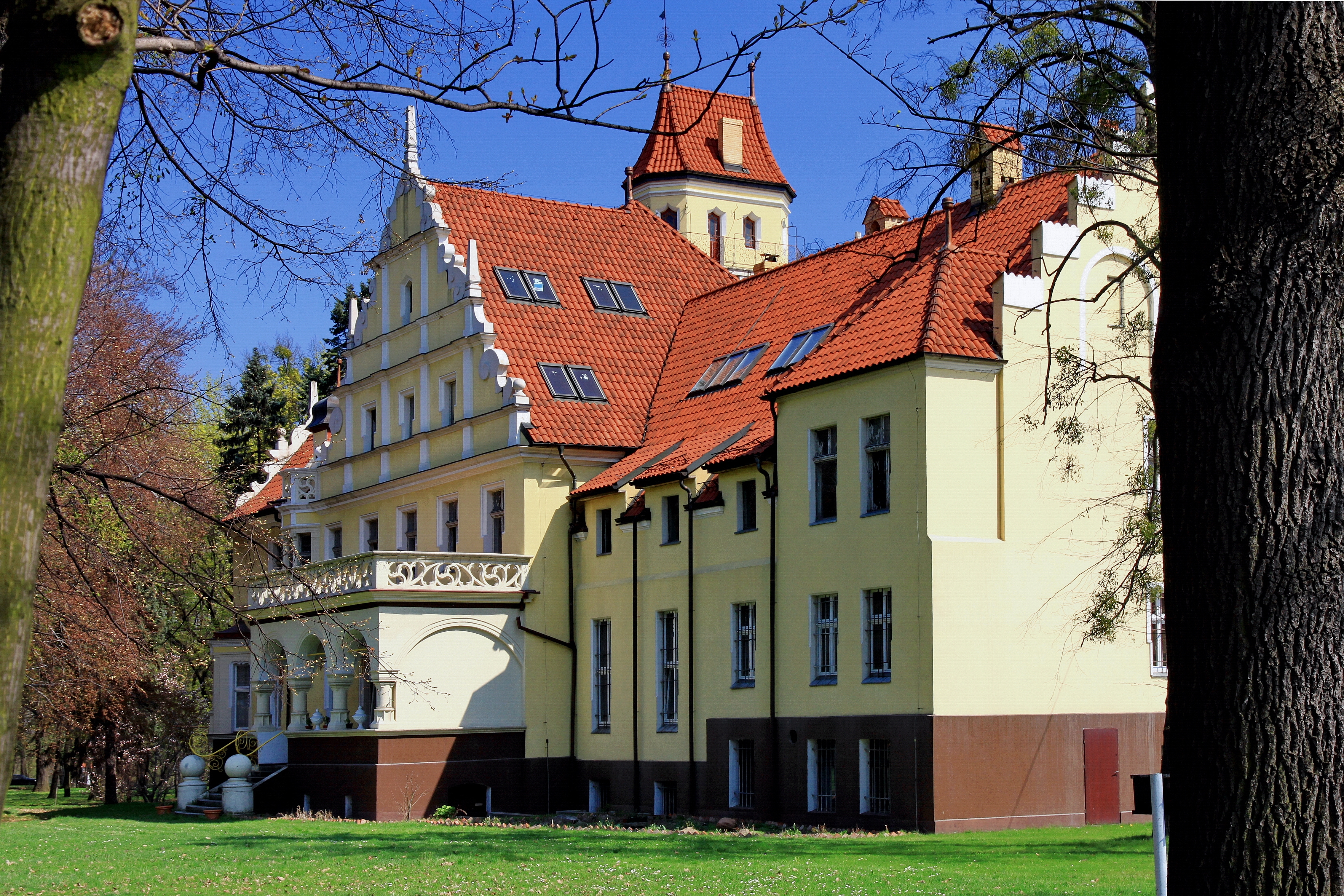 Ornontowice, palace, end of 19th century